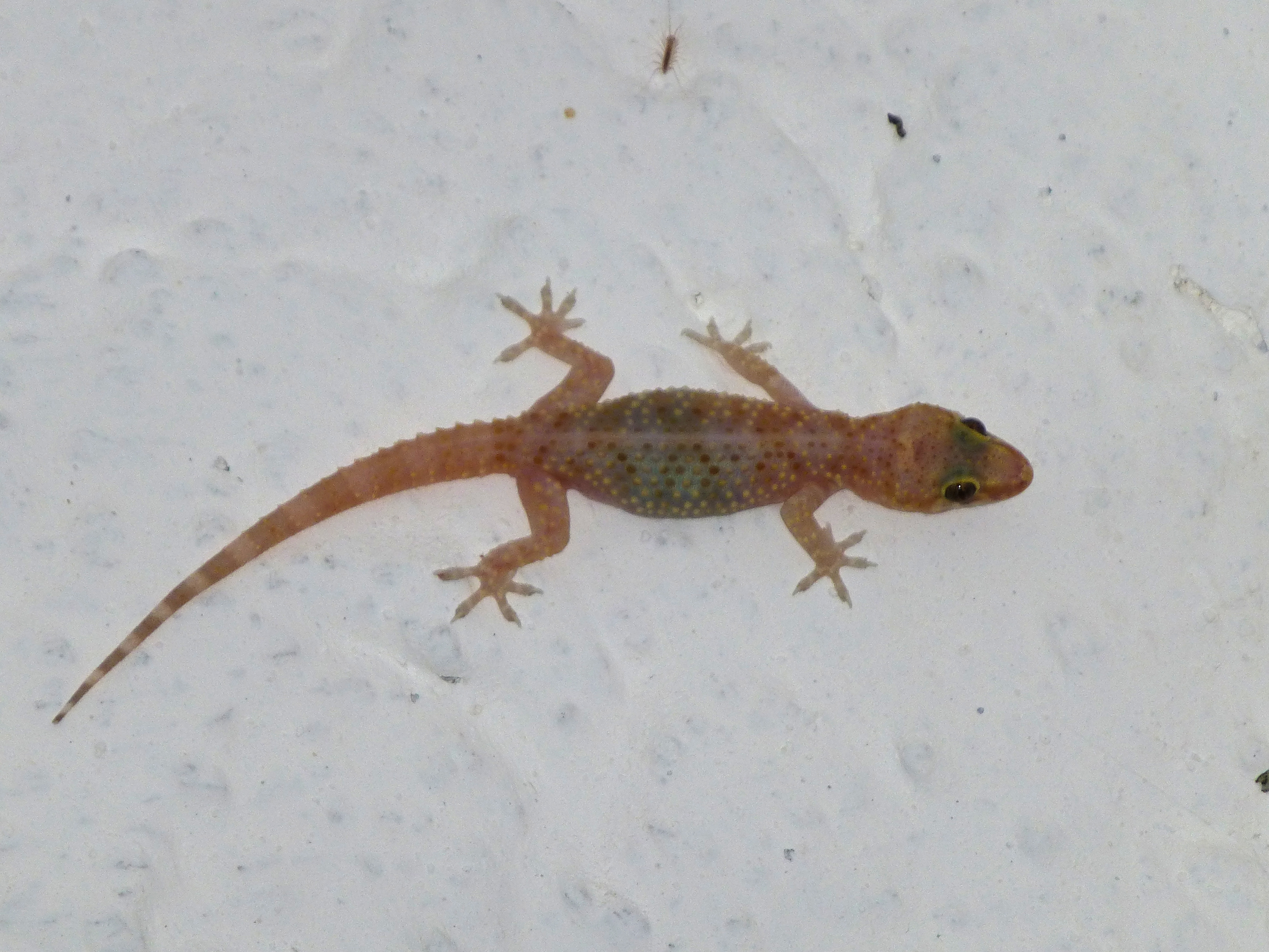 Lizard in Mugla province, Turkey.